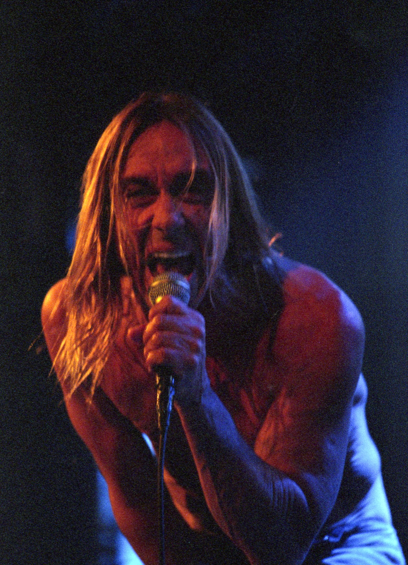 Iggy & the Stooges , All Tomorrow's Parties, Minehead 2005 Part of Neate at ATP, All Tomorrow's Parties first photo exhibition. August 2014 update: Exhibition now on show at the 13th Note, Glasgow. Exhibition views. Neate at ATP colour album. Quietus preview. ATP page